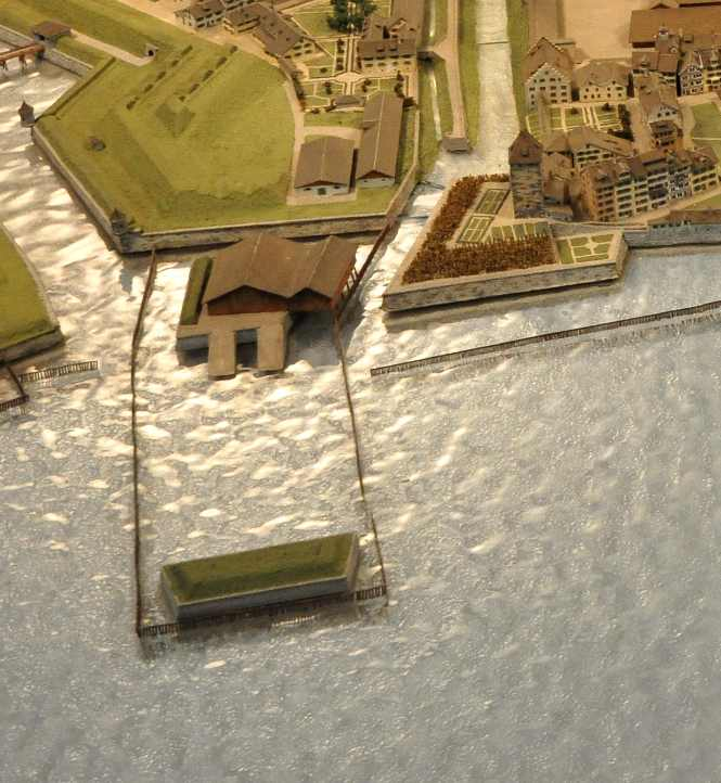 Zürich: old navy port 1793 and surrounding buildings. Stadtmodell (scale model) by Hans Langmack, based on the so-called 'Müllerplan' (published in 1794).